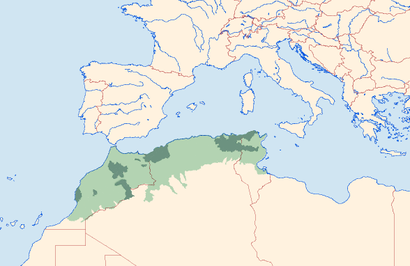 Distribution of Enallagma deserti. Extant darken: probably extant lighten Data Source: Rangemap of the IUCN for Enallagma deserti. Retrieved 7 March 2011.